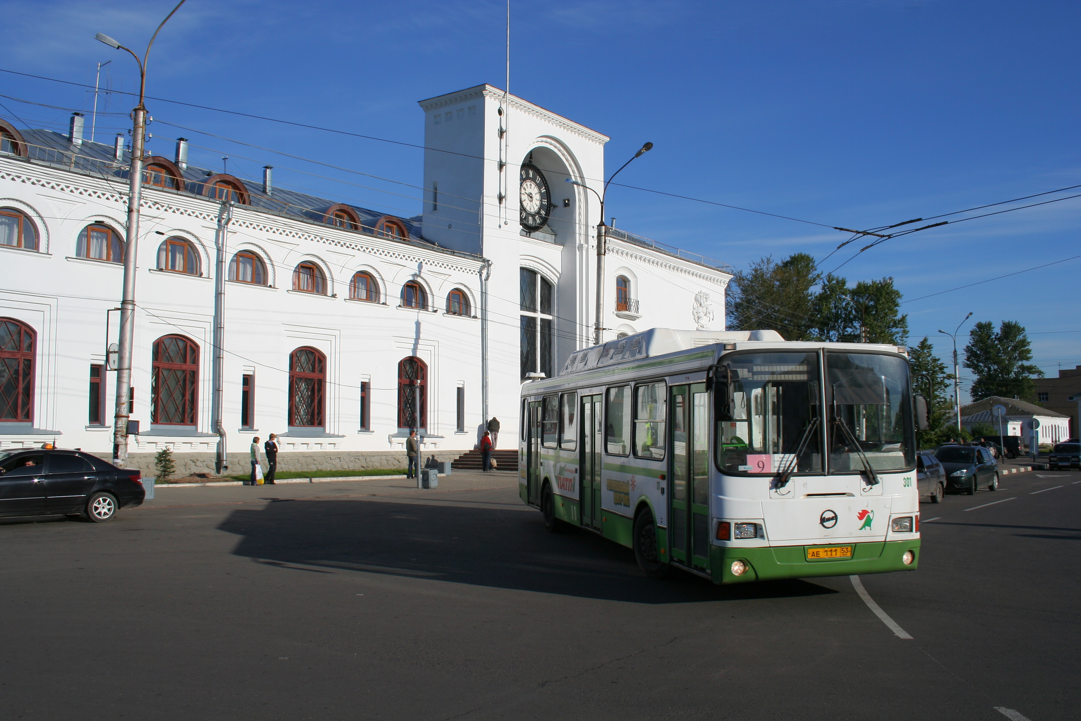 Views of Velikiy Novgorod. A bus at the main train station.